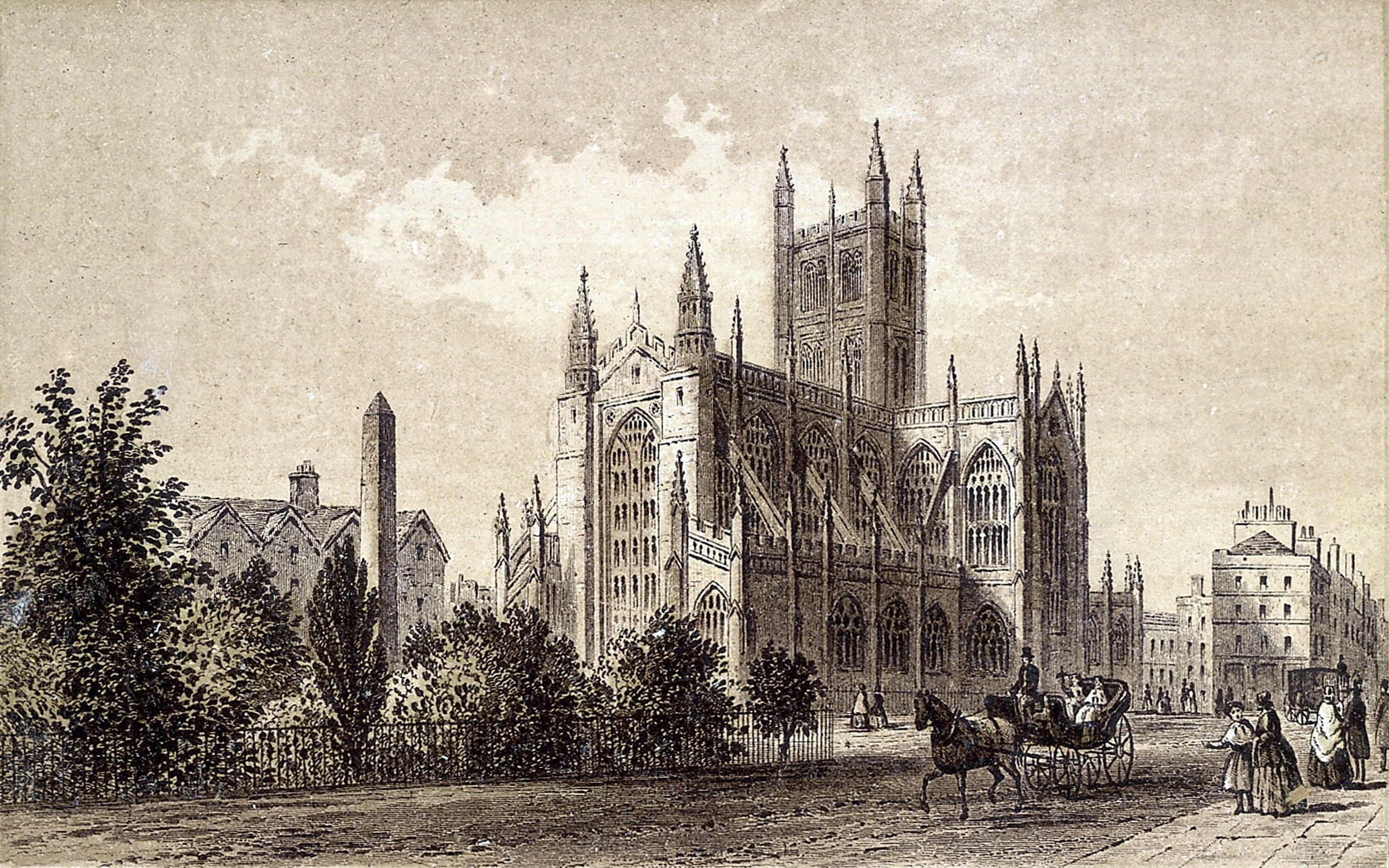 Photographic print of Bath Abbey, 1875